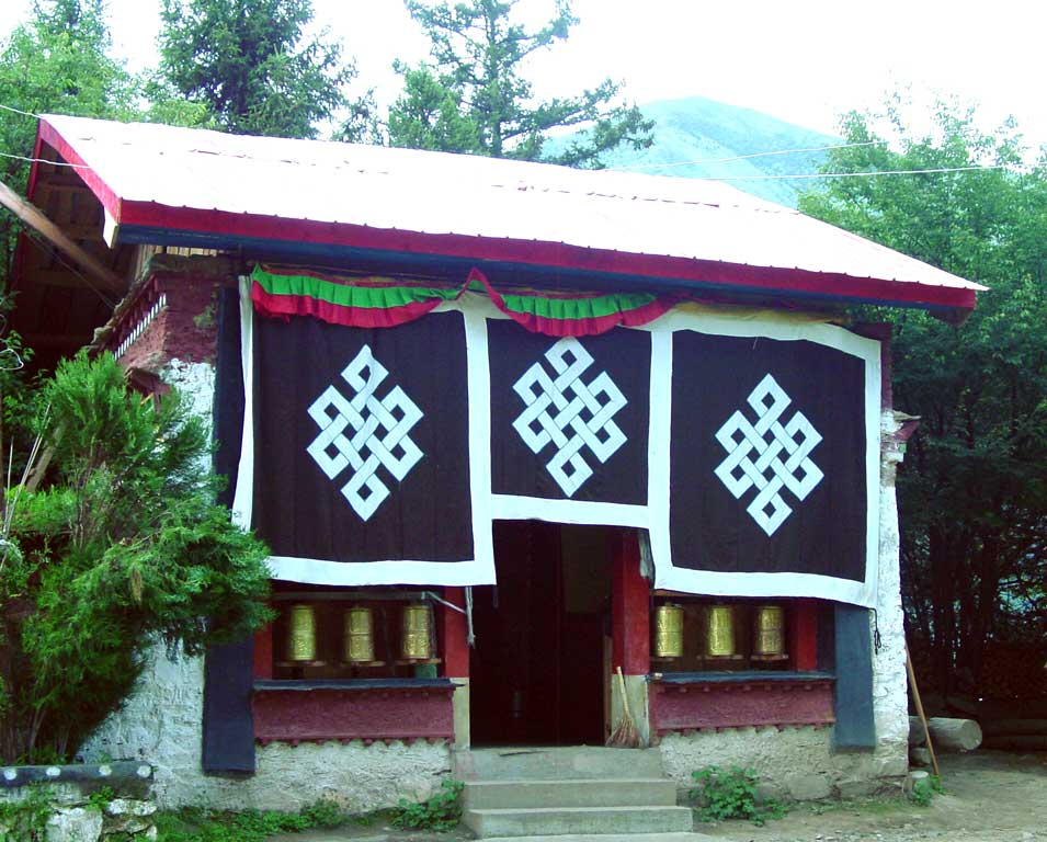 Author: Kosi Gramatikoff; Photography: Kosi Gramatikoff; Tsozong Gongba Monastery - secondary building